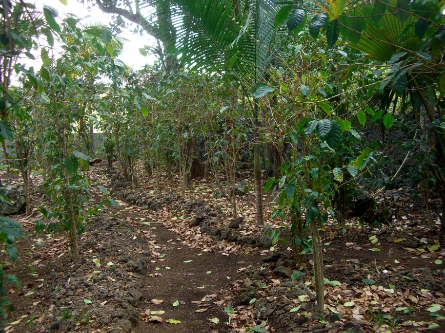 Old-fashioned coffee-plantation in Reunion